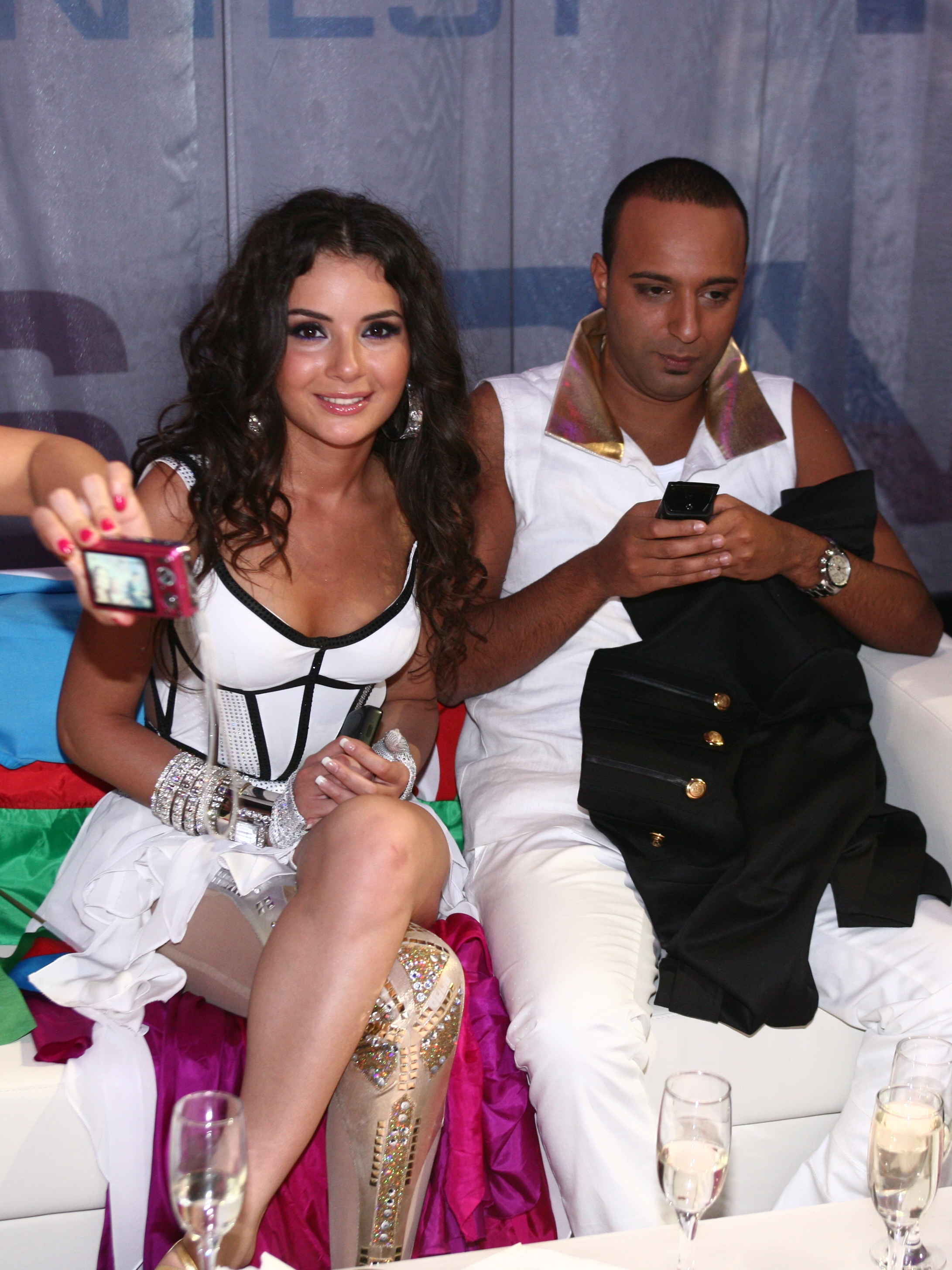 Azerbaijani duet Aysel and Arash in the Green Room during the 2009 Eurovision Song Contest in Moscow.